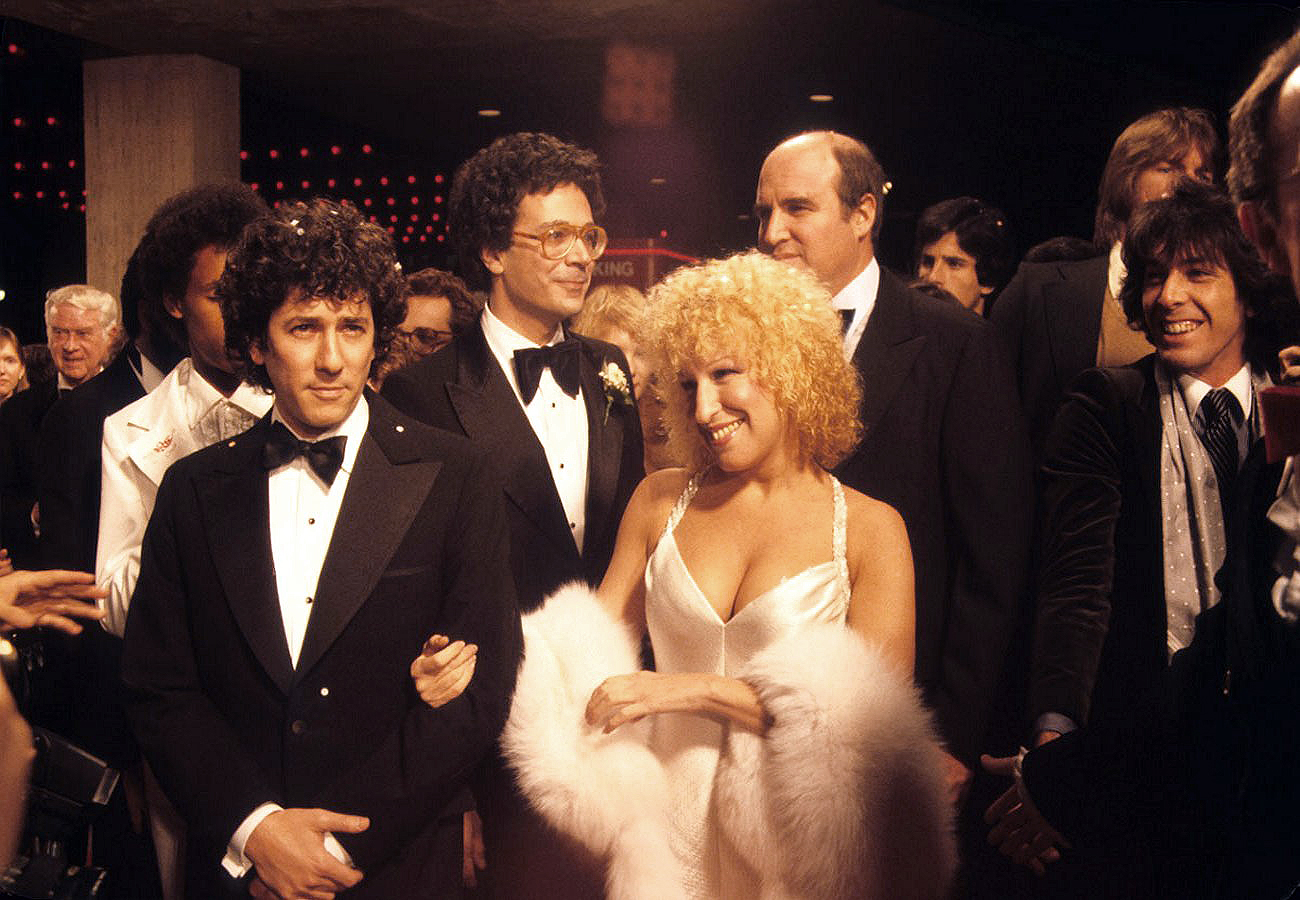 Actor Peter Riegert and actress/singer Bette Midler at the premiere of Midler's movie "The Rose".